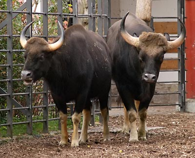 Gaur in the Berlin Zoo